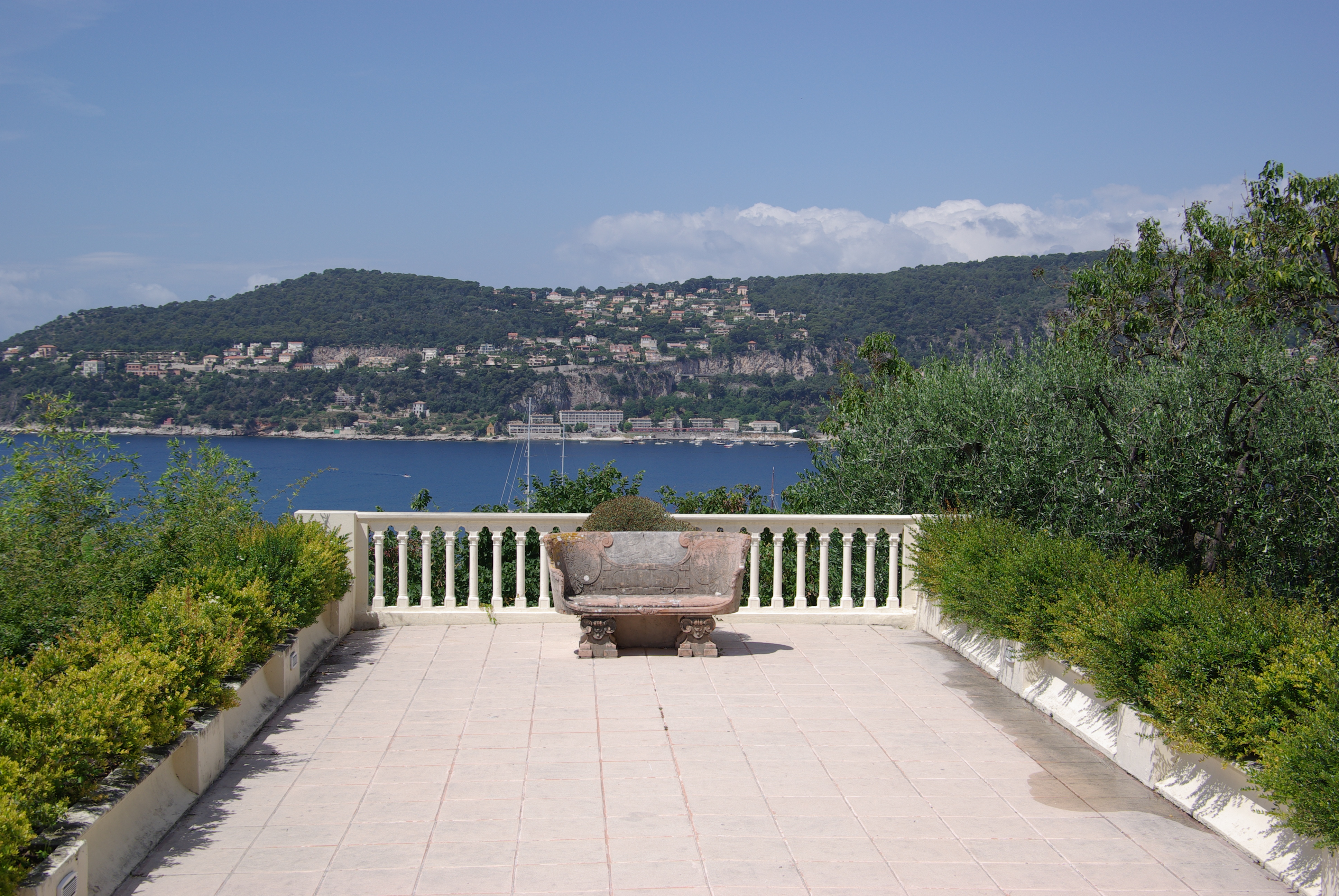 View from the garden of the Villa Ephrussi de Rothschild towards Villefranche sur mer